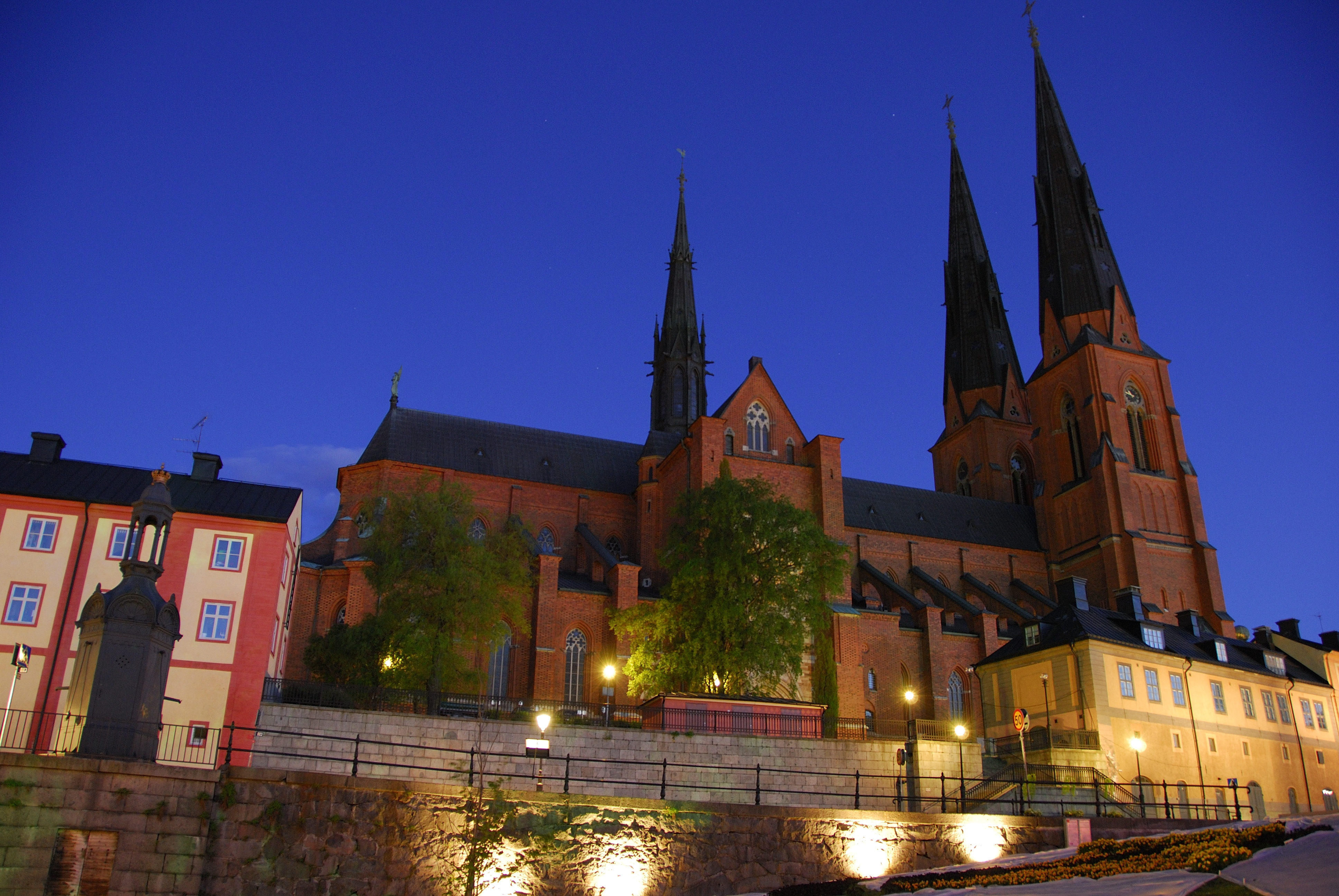 Photo of Uppsala Domkyrka, Sweden, photo taken by night